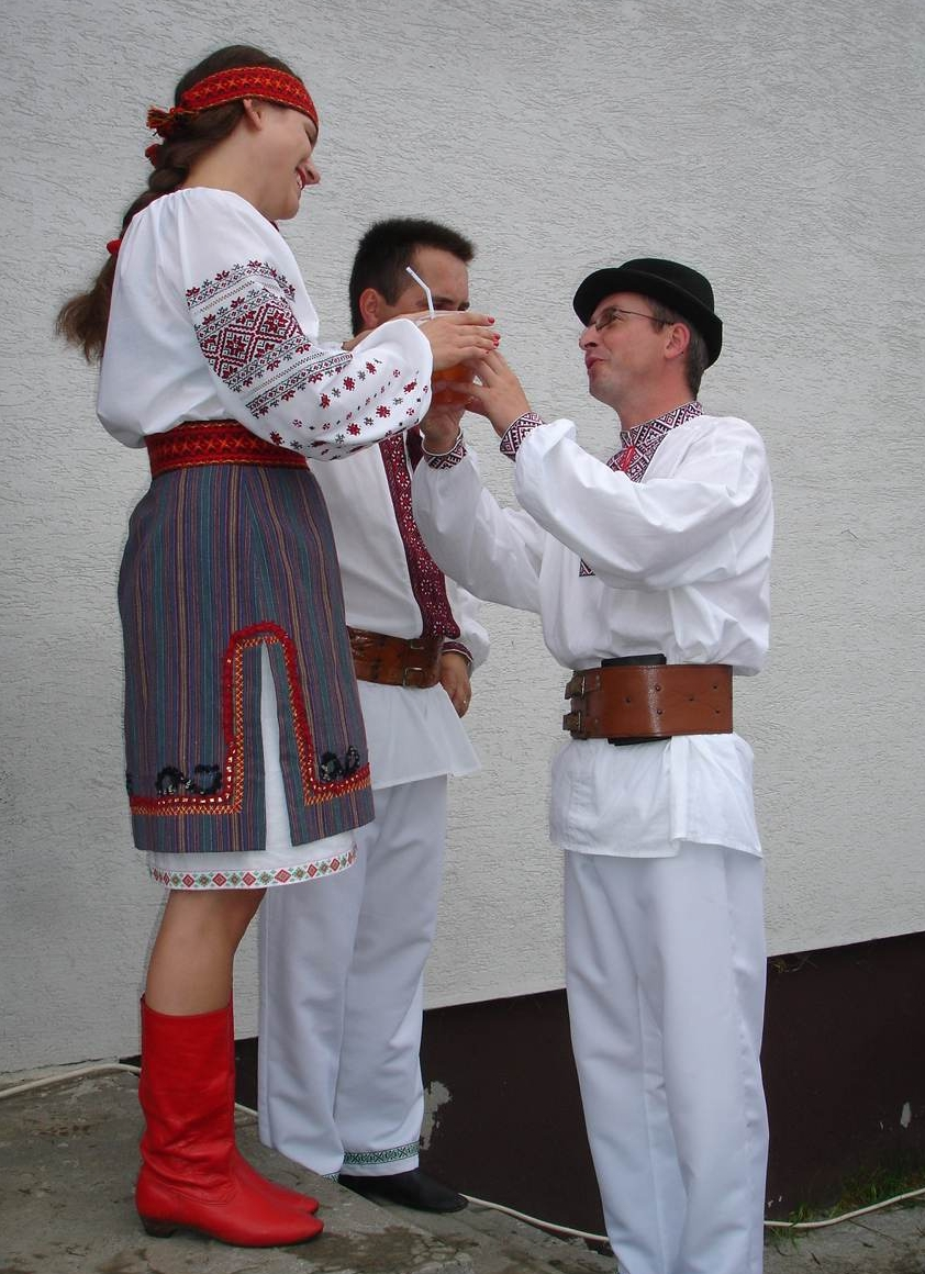 Carpatho-Rusyn sub-groups - Sanok area Lemkos in original goral folk-costumes from Mokre (Poland)